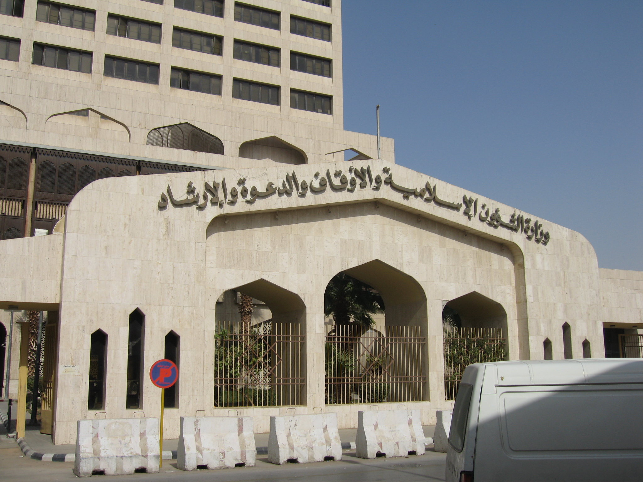 Ministry of Islamic Affairs